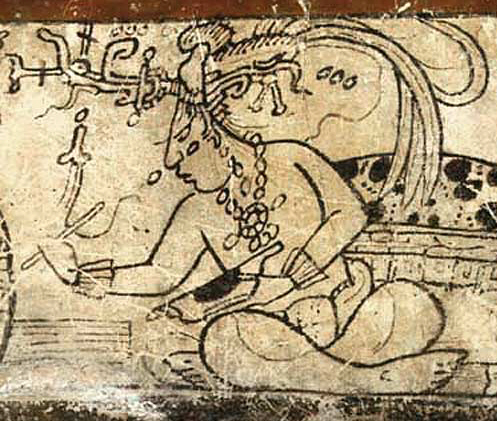 The Maize God as scribe